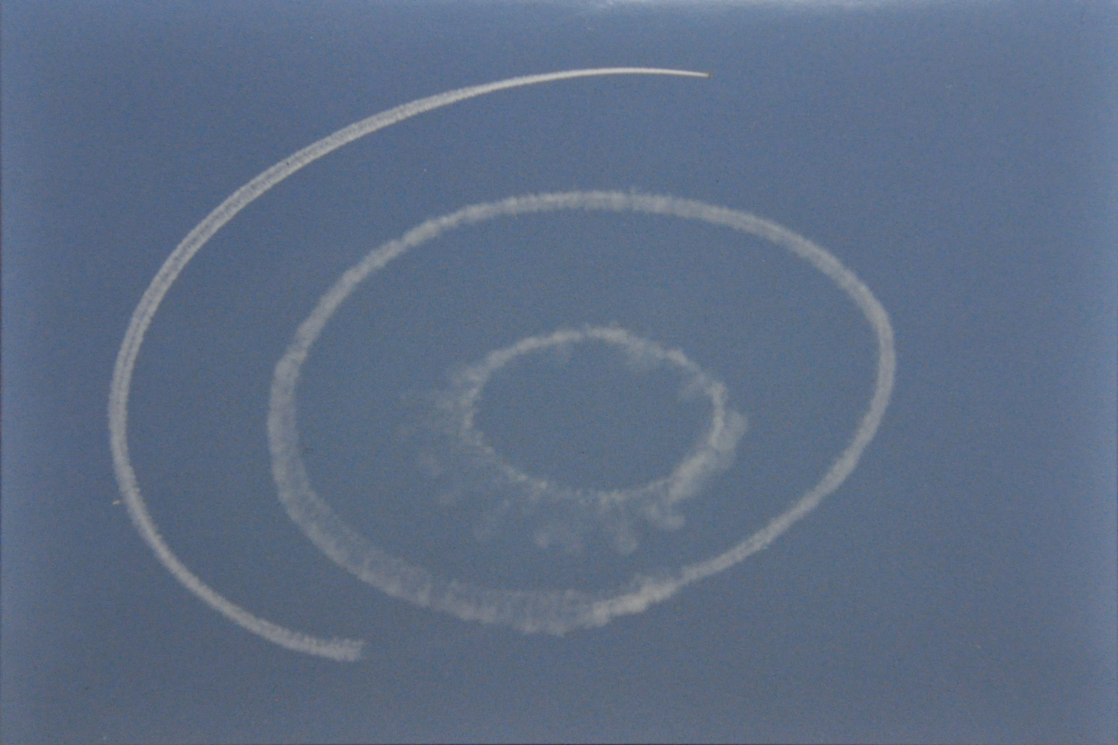 Aerial Performance by Steve Poleskie for the Hollywood Art and Culture Center, Florida (1983)